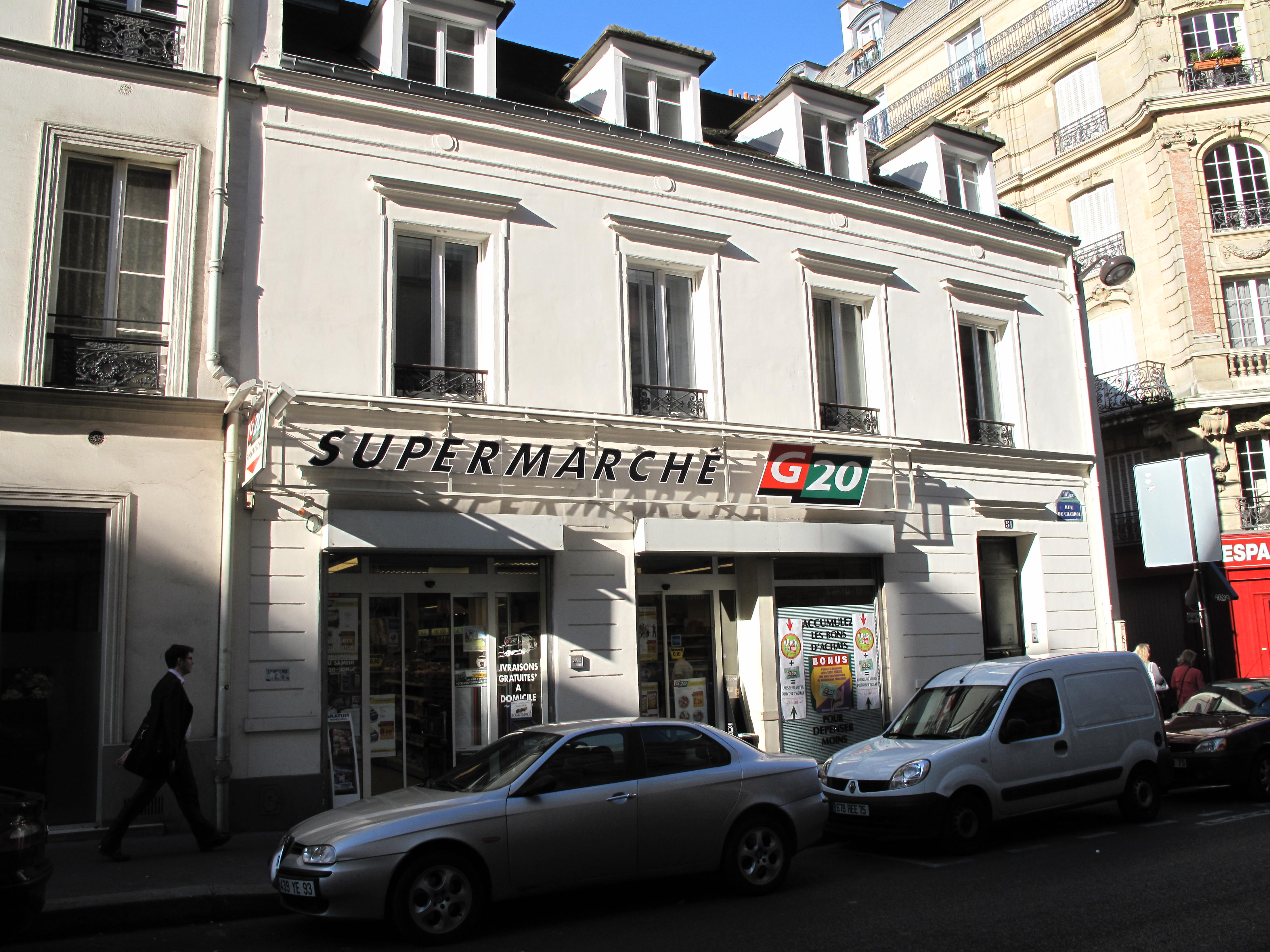 The house of the episode of Fort Chabrol in 1899 : 51, rue de Chabrol, Paris